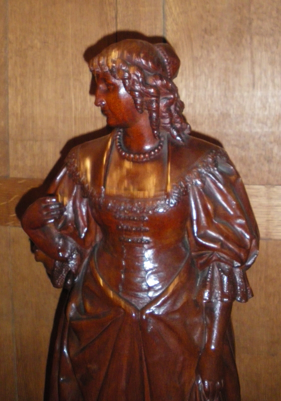 One of Thomas Nicholls' mahogany carvings of characters from Alexandre Dumas' "The Three Musketeers" at 2 Temple Place on the Embankment in London. There are seven such figures which used to sit on the newel posts of the main staircase. This figure is of Milady married to Athos when he was the Comte de la Fere. She was to pay the penalty for her misdeeds at the hands of the Executioner of Lille.